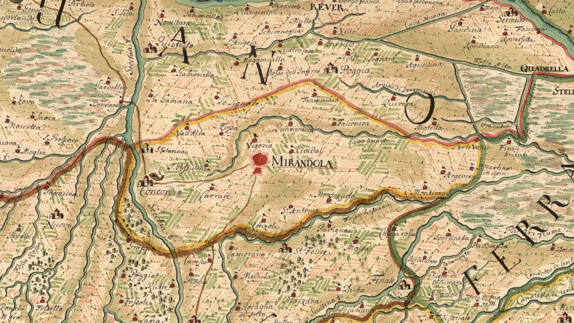 The Duchy of Mirandola during the first half of the 18th century. Cropped from a map by Johann Carl Hemeling titled Geographische Special Carte von Italien, published in 1732.